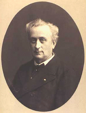 Composer, organist and conductor Emil Hartmann (1836-1898)